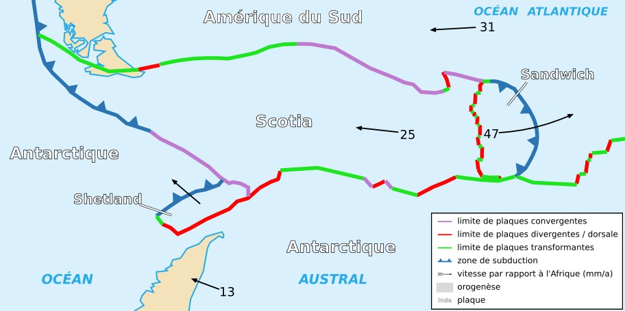 Map of the Scotia Plate